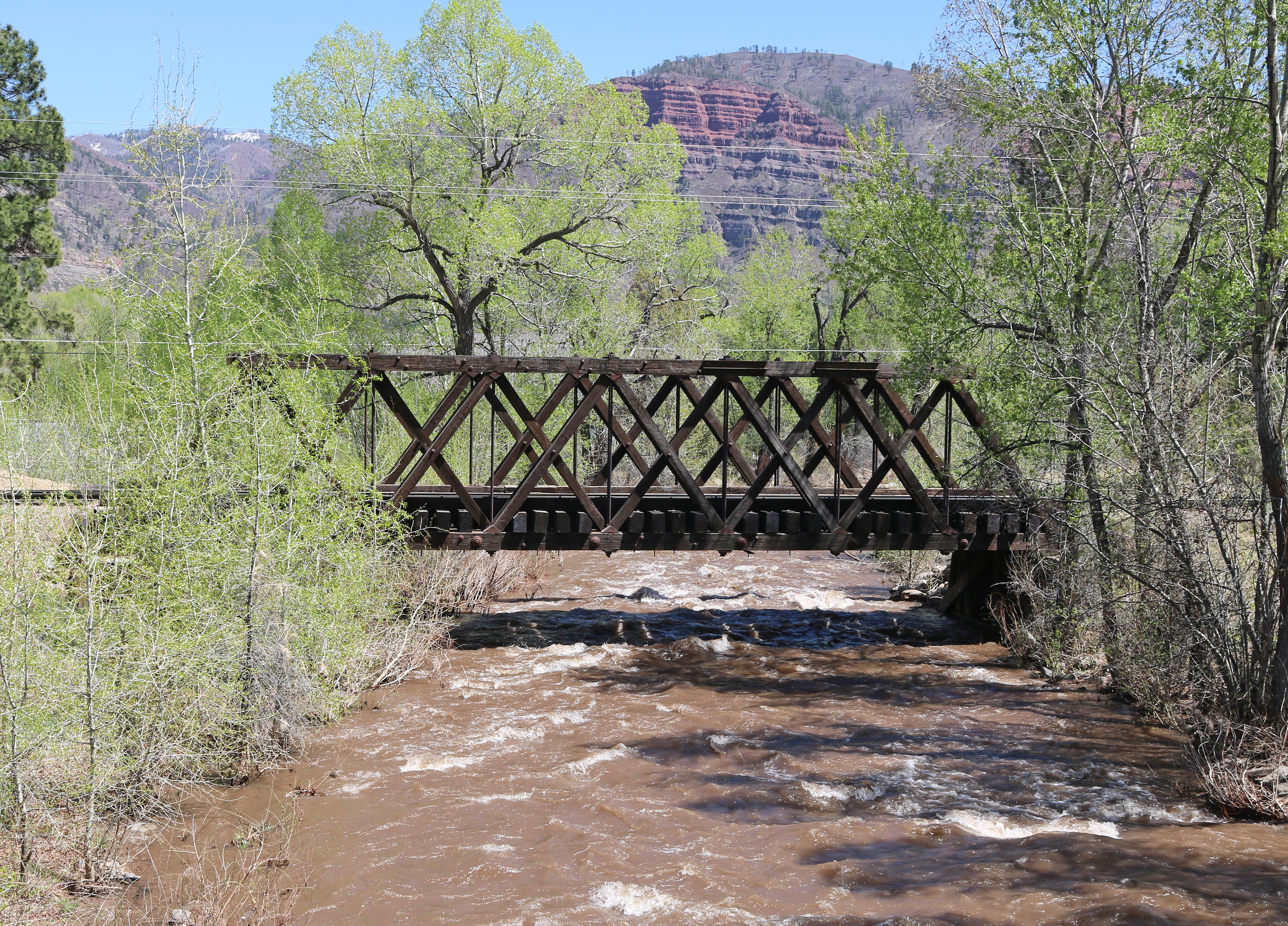 A view of Hermosa Creek in Hermosa, Colorado. The view is from a bridge on U.S. Highway 550 and shows a Durango and Silverton Narrow Gauge Railroad trestle.